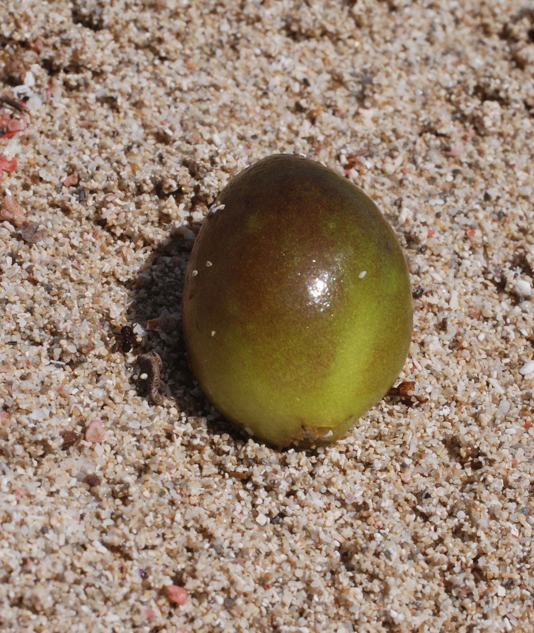 Fruit of Posidonia oceanica, Platja des Cavallet, Ibiza